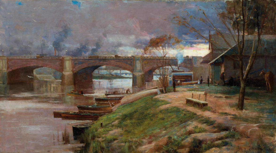 Between the Lights - Princes Bridge, oil on canvas, 84.0 x 155.0cm (33 1/16 x 61in).